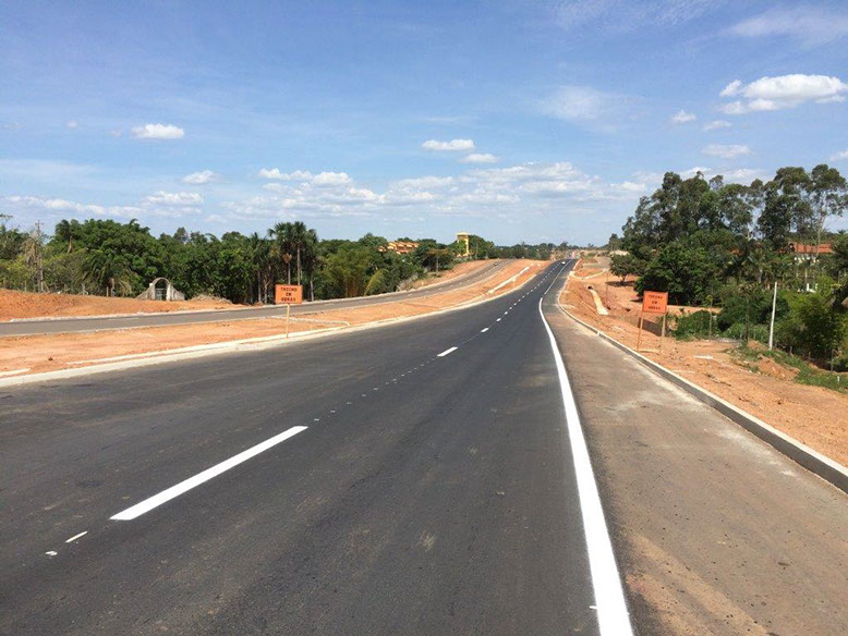 Obras de duplicação Caldas Novas - Morrinhos - BR-153